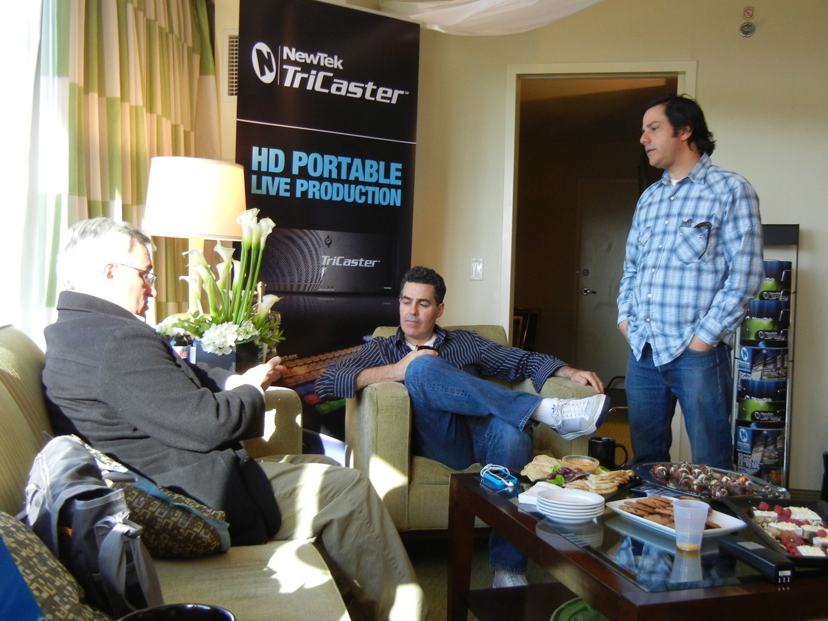 Leo Laporte visits with the ACE Team, Adam Carolla and Donny Misraje in the Broadcast Minds Green Room.